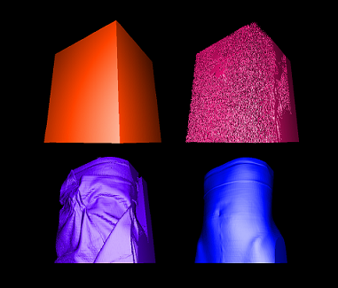 four different 3D reconstruction of the same scan (female abdomen)